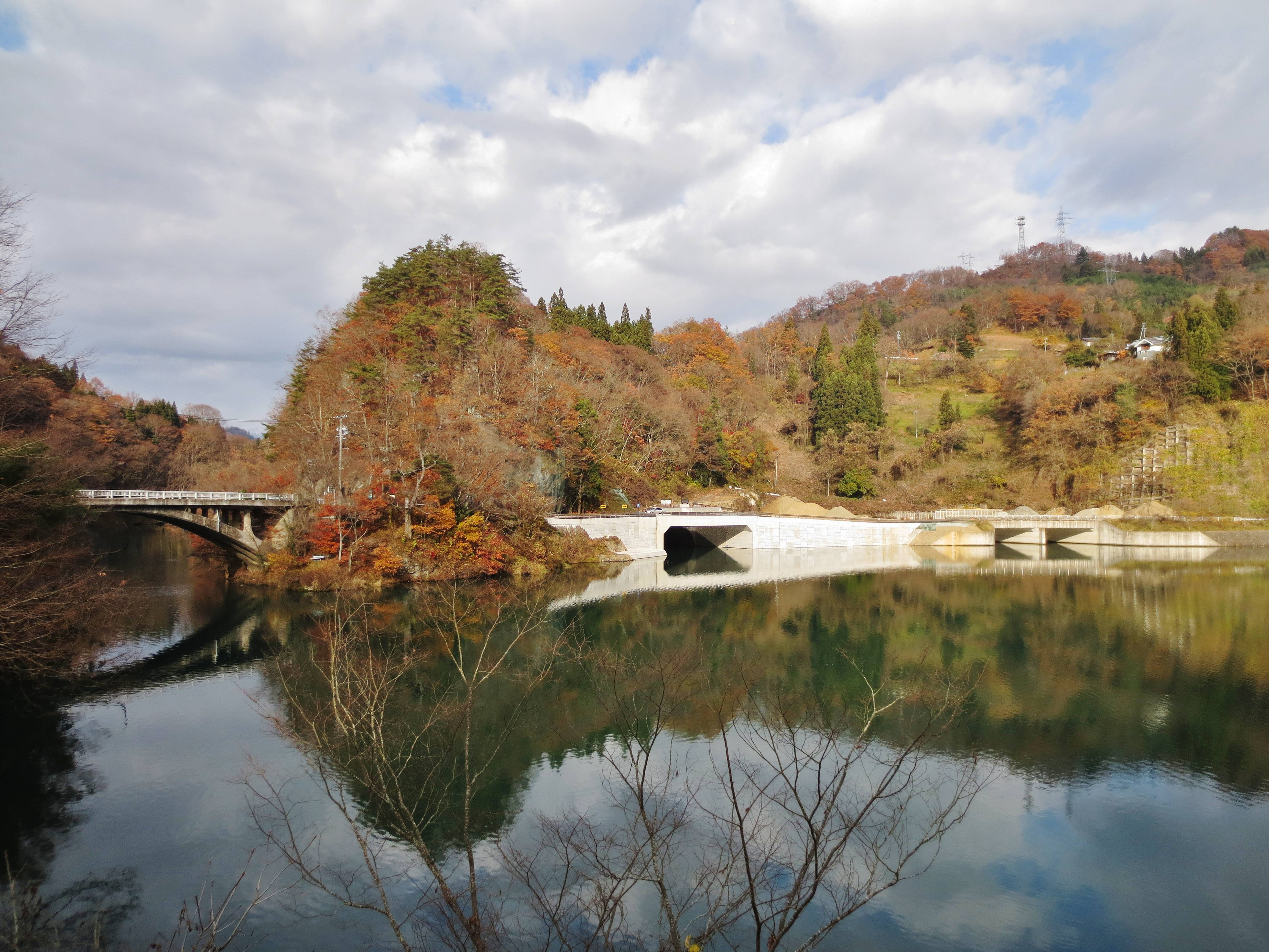 Kumejikyo river tunnels.